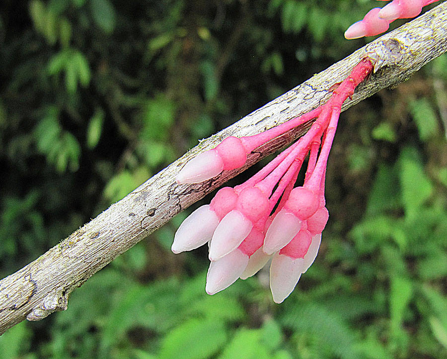 Native to Costa Rica and Panama. Photo from Bajo Mono area, western Panama. In context at